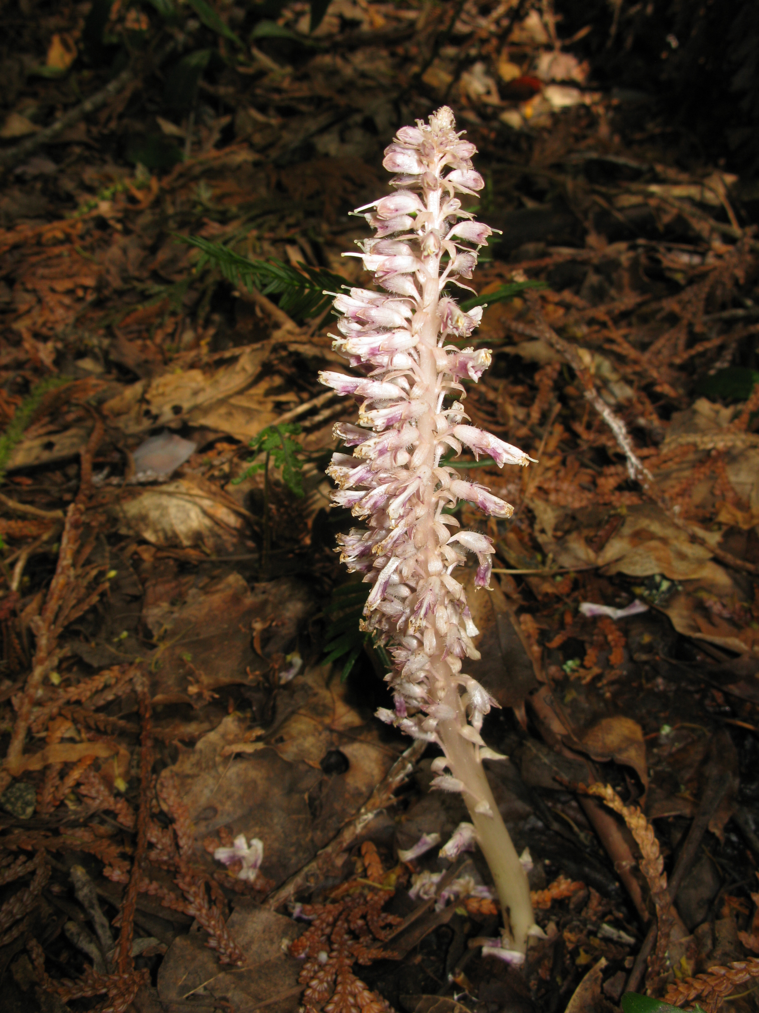 Lathraea japonica, Aizu area, Fukushima pref., Japan